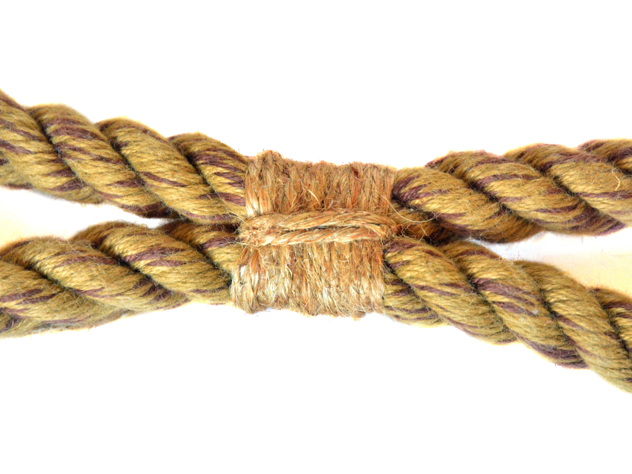 A seizing.